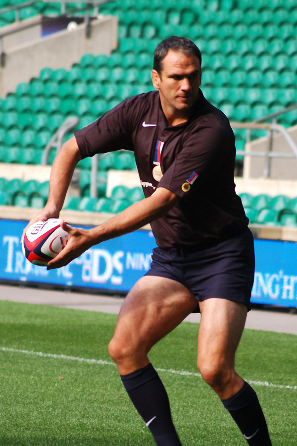 Martin Johnson passing the ball.